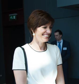 Amélie Derbaudrenghien on Thursday, May 25, 2917, visiting the Margritte Museum in Brussels. (Official White House Photo by Andrea Hanks, cropped)